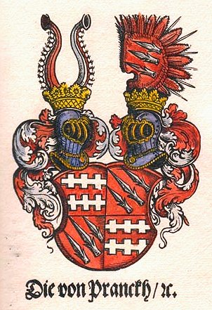 Coats of arms of the Pranckh family from Styria, Austria